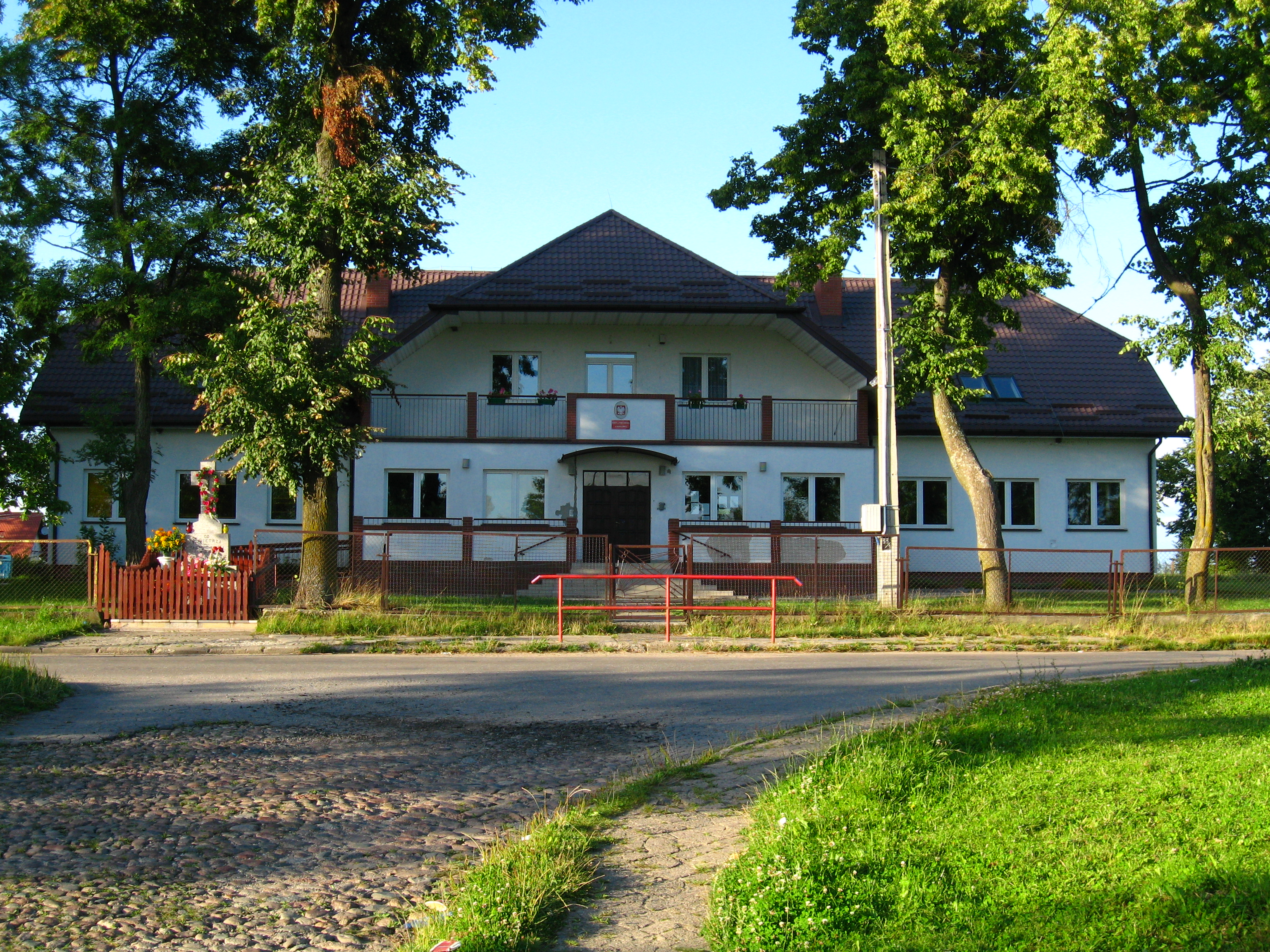 Rafałówka, gmina Zabłudów: school